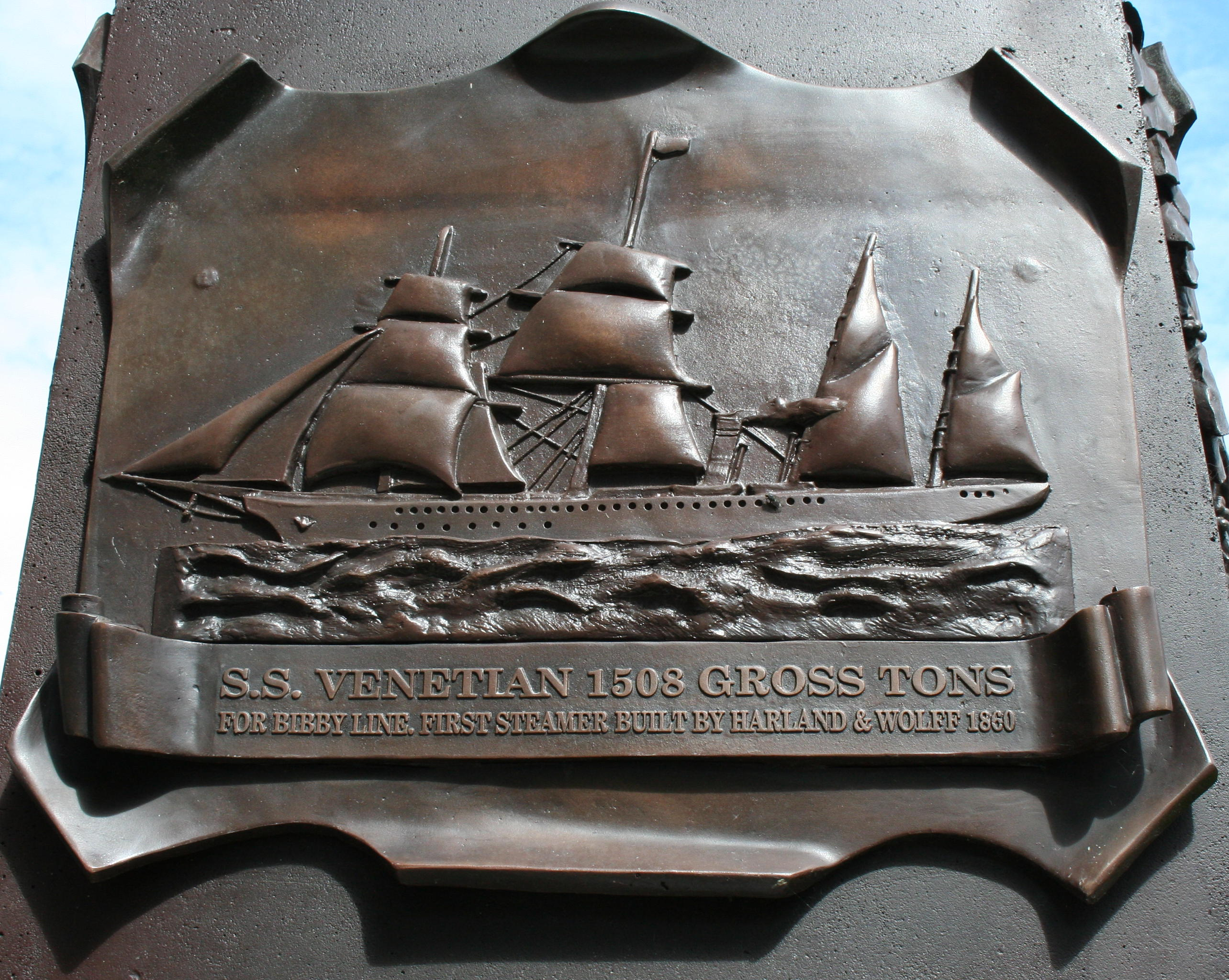 Image of plaque on WJ Pirrie monument - the ss Venetian - the first steamship built by H&W. Grounds of City Hall Belfast. Credit: A Peter Clarke image